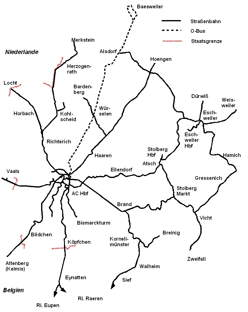 Tramway network Aachen